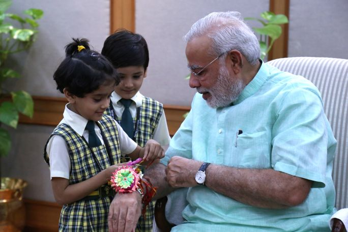 A child ties a rakhi on PM Modi's wrist on the occasion of Raksha Bandhan